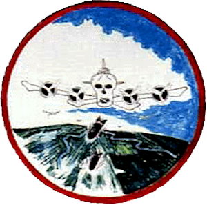 Emblem of the 365th Bombardment Squadron (World War II)